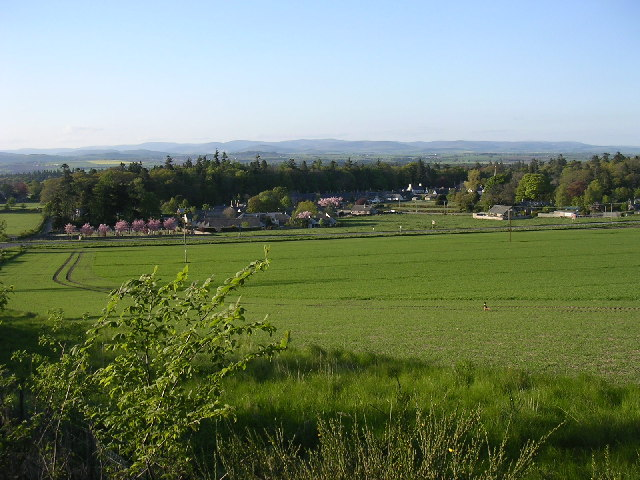 Glamis village and the distant Grampians, Angus